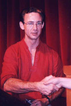 Photo taken at the University at Albany while Chuck was on tour to promote Diary.